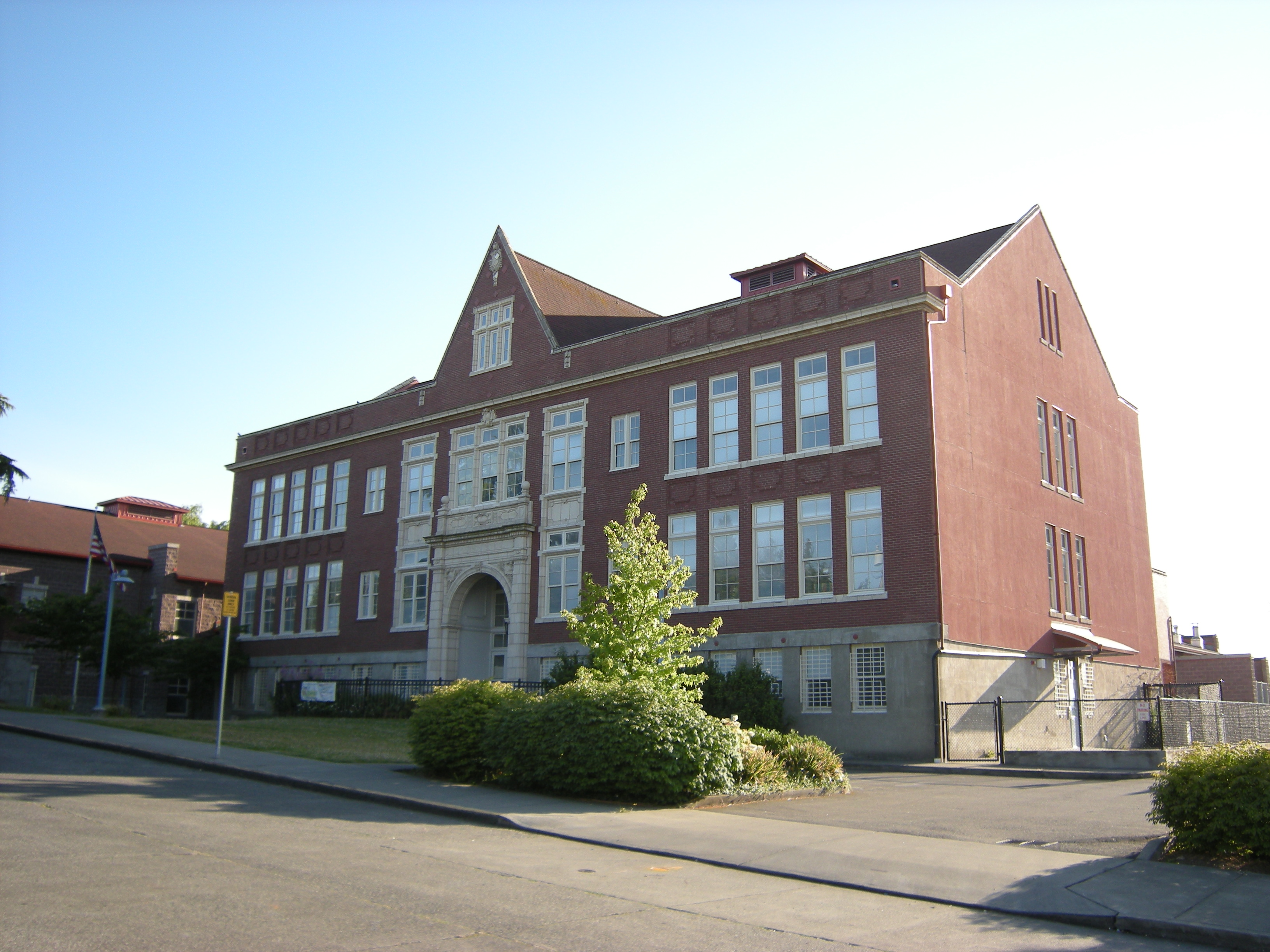 Emerson School, on the heights above Rainier Beach, Seattle, Washington. The school has city landmark status.